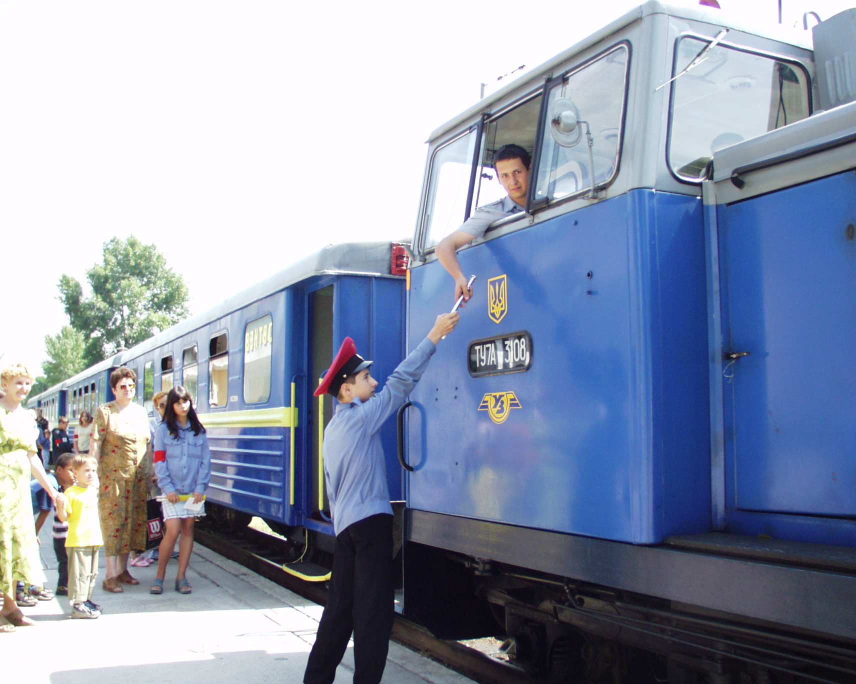 Zaporozhie children's railway.